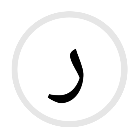 HS Letter (arabic alphabet)